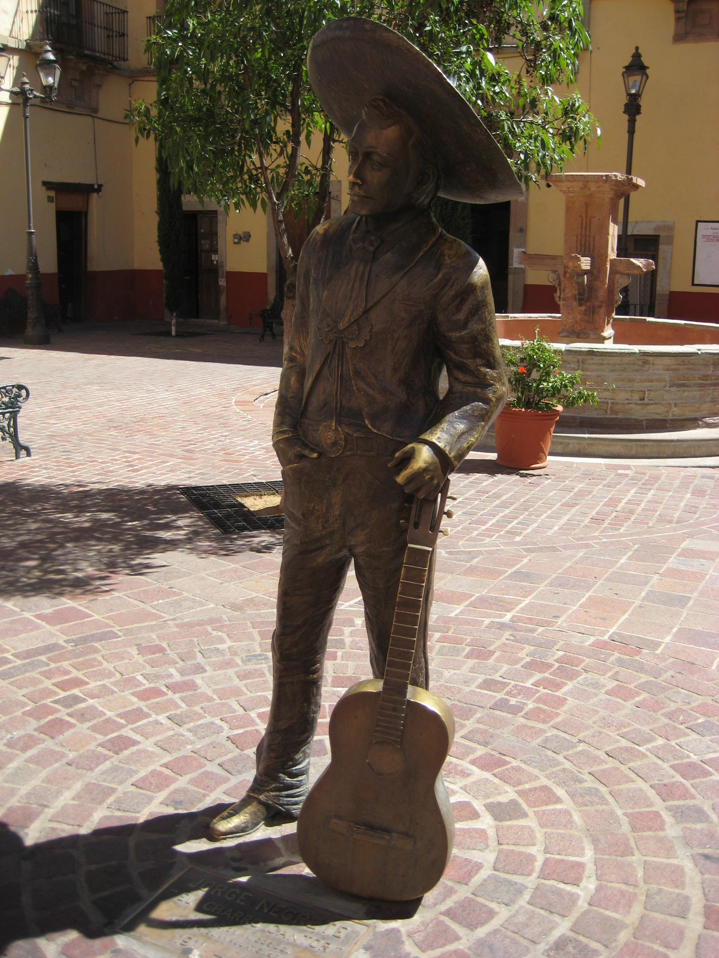 bronze statue of Jorge Negrete in Guanajuato